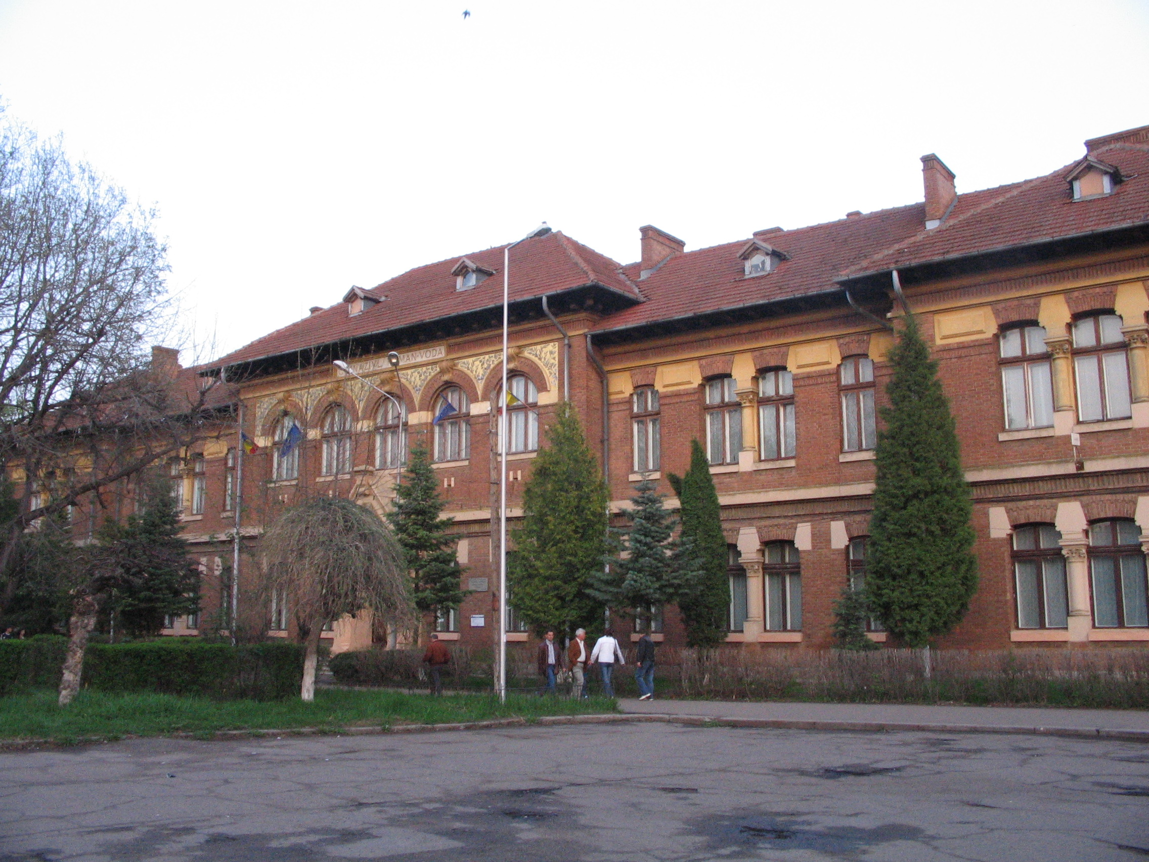 The Roman Vodă high-school in Roman, RomaniaRomână: Colegiul Naţional Roman Vodă in Roman, România